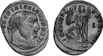 coin of Valens I AE3, 316 г., бронза. Аверс - Валент I, IMPCAVRVALVALENSPFAVG, реверс - Юпитер, IOVICONSERVATORI, I, SKM (Кизик).